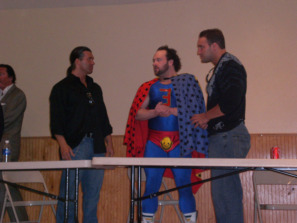 Wrestling superstars Kaz (real name Frankie Kazarian), Eugene (real name Nick Dinsmore) and Chris Masters (real name Chris Mordetsky) in Newark, California